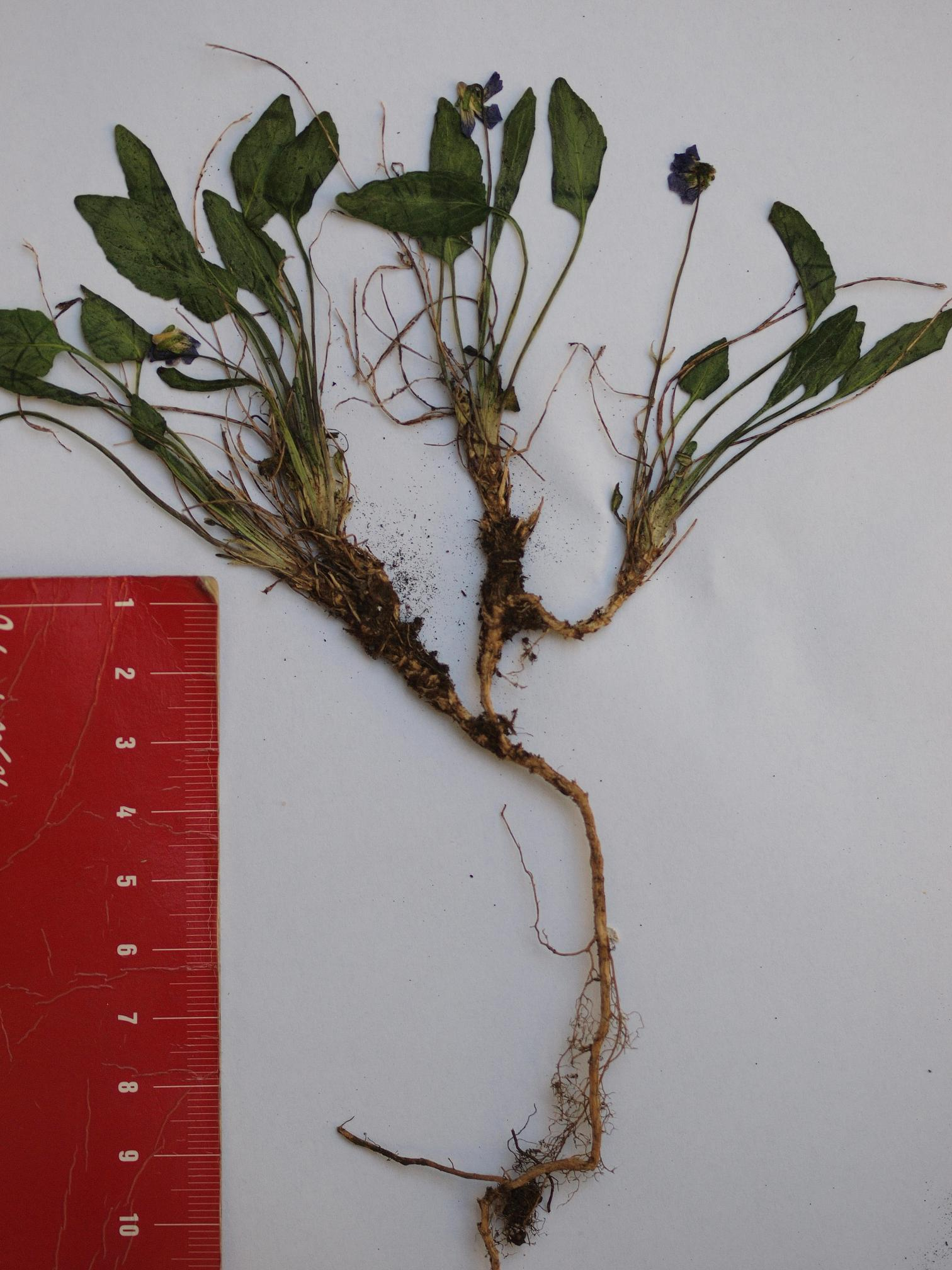 Exsiccate of Viola chelmea from Orjen, Pavlovica do at 1750 m 9. June 2009